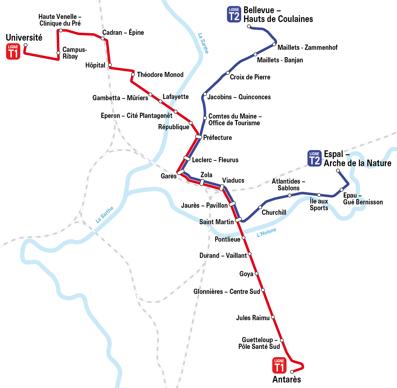 Le Mans streetcar network